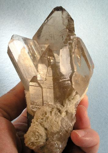 Topaz, Quartz (Var.: Smoky Quartz) Locality: Klein Spitzkopje (Kleine Spitzkoppe) granite stock, Swakopmund, Swakopmund District, Erongo Region, Namibia (Locality at ) Size: 12.7 x 6.2 x 6.2 cm. An amazing combination piece of a gemmy Topaz with a huge gemmy Smoky Quartz from the well-known locality of Klein Spitzkopje in Namibia. The gem-clear Topaz is actually 9.5 cm long as it penetrates through the Smoky Quartzes, with 4.8 cm exposed. It is 2.6 cm wide. The gemmy Smoky is 12 cm long and 4.6 cm wide. There are three smaller attached Smoky Quartzes. Ex. Charlie Key.